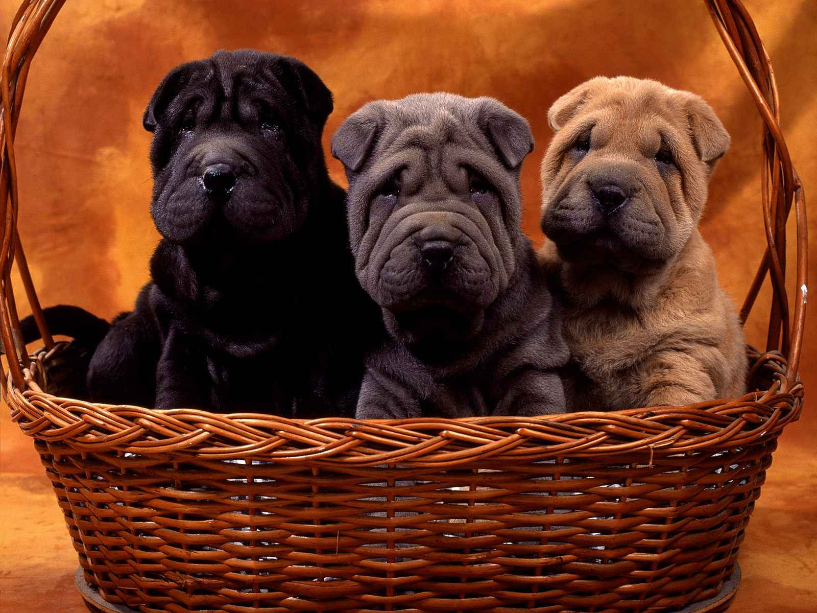 Shar-pei brothers